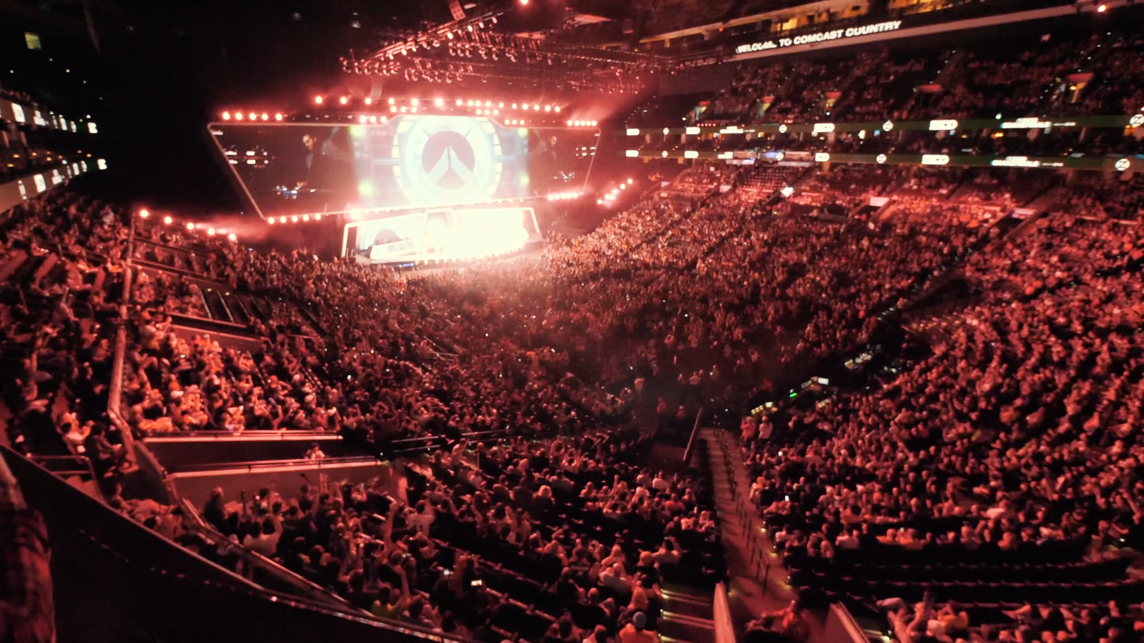 Zedd performing at the 2019 OWL Grand Finals